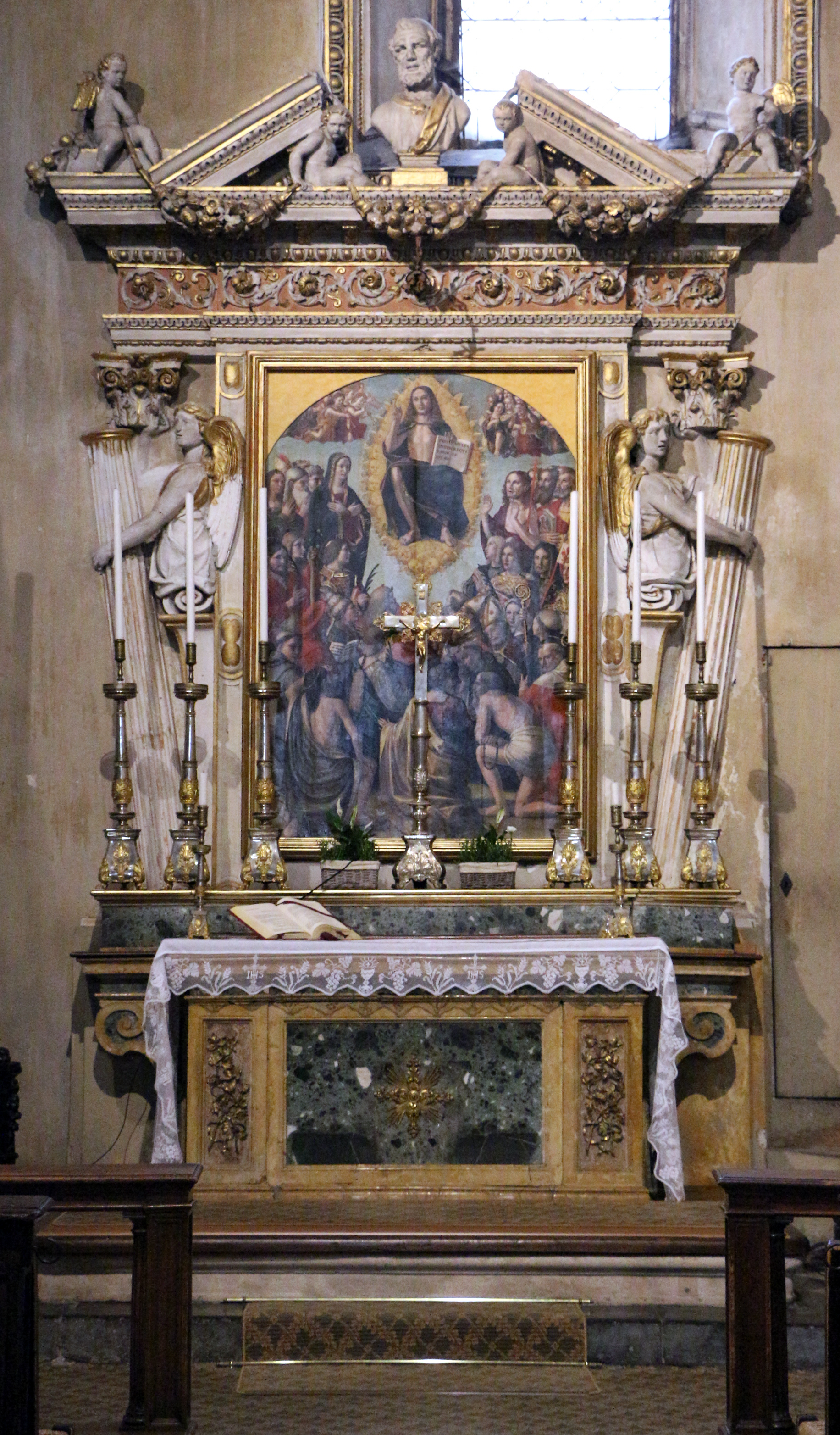 Santa Maria Maggiore (Bergamo) - Inside